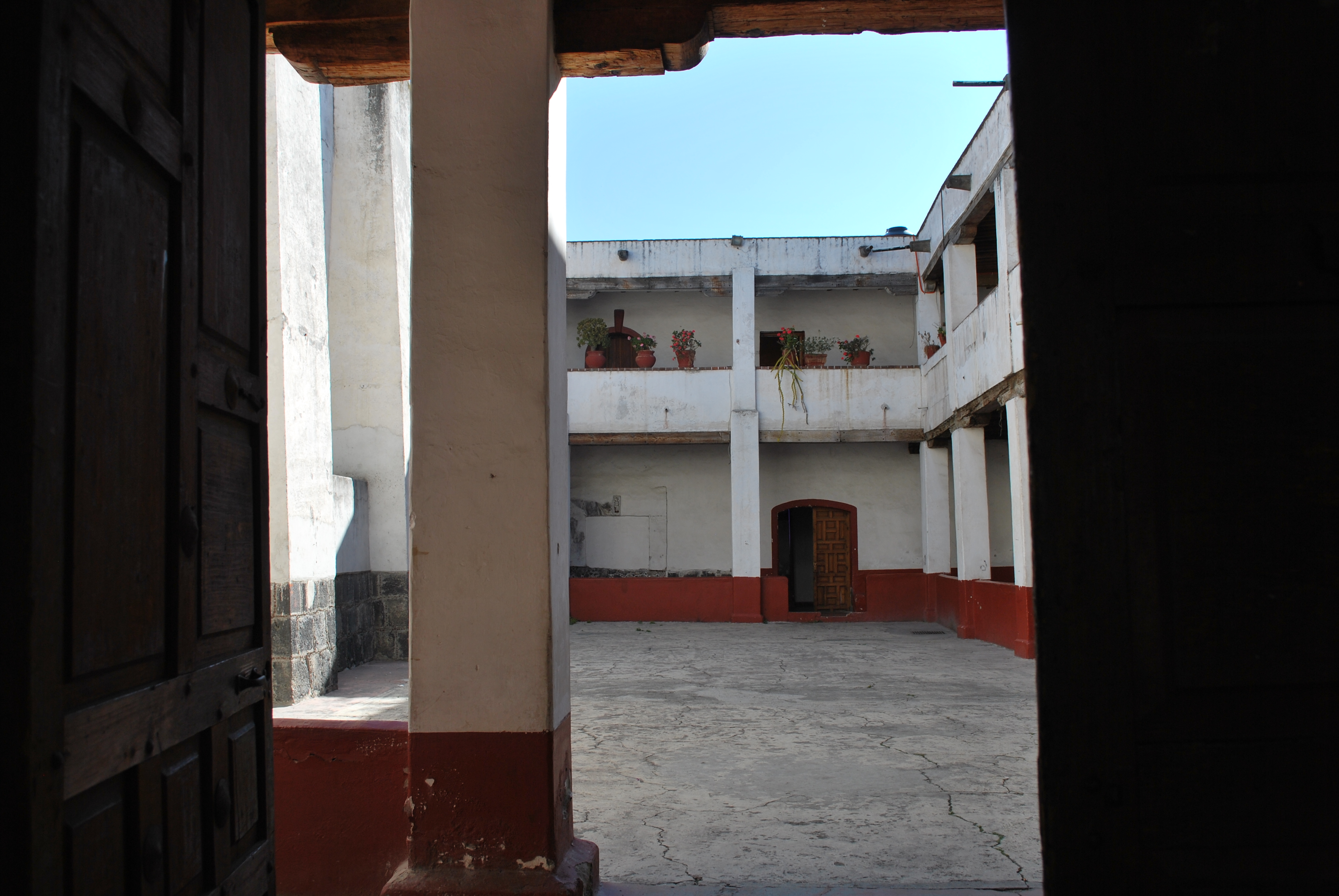 View of the cloister of the San Matias Church in Iztacalco, Mexico City